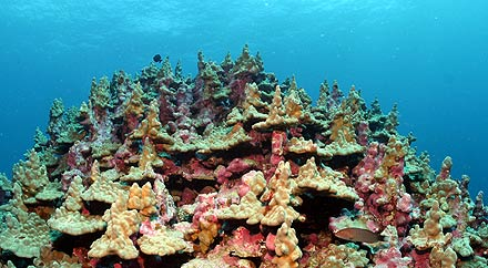 "Coral Garden" with Porites lobata at Neva Shoals, Lisianski Island, Northwestern Hawaiian Islands